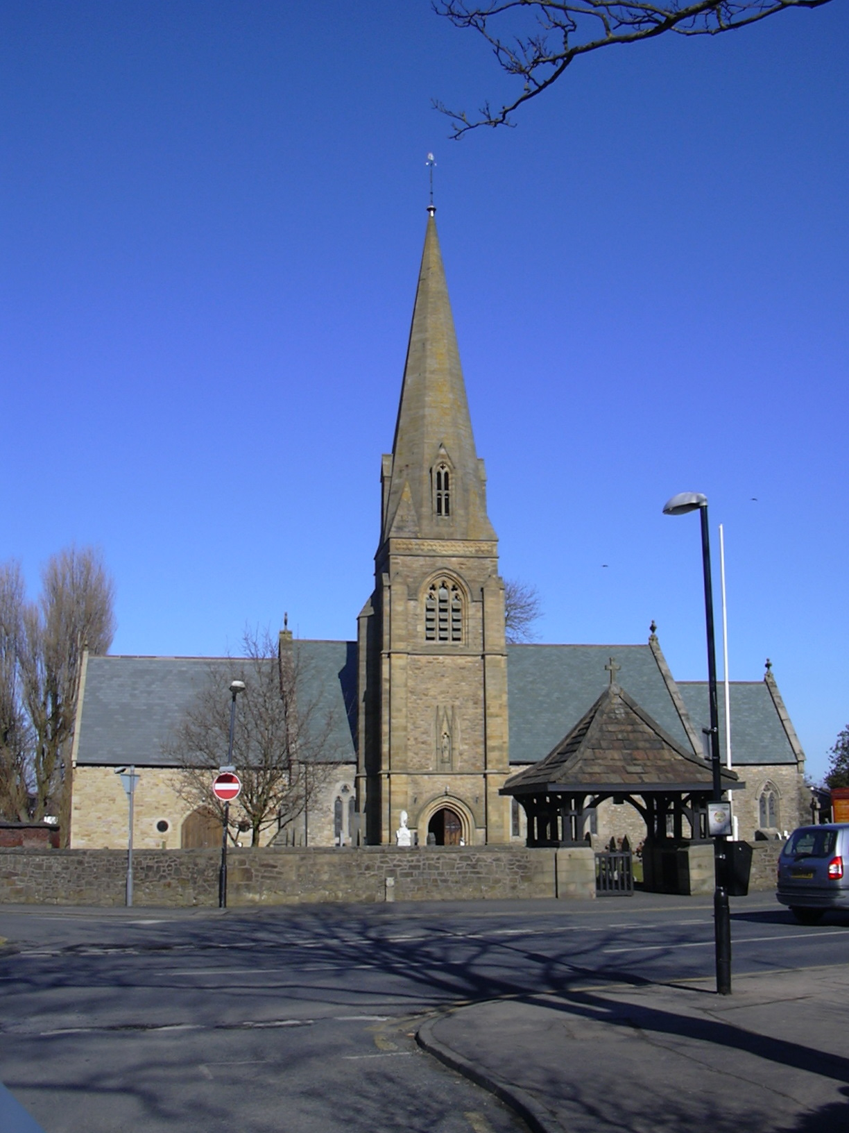 St Nicholas' parish church, Wrea Green, Lancashire, seen from the south